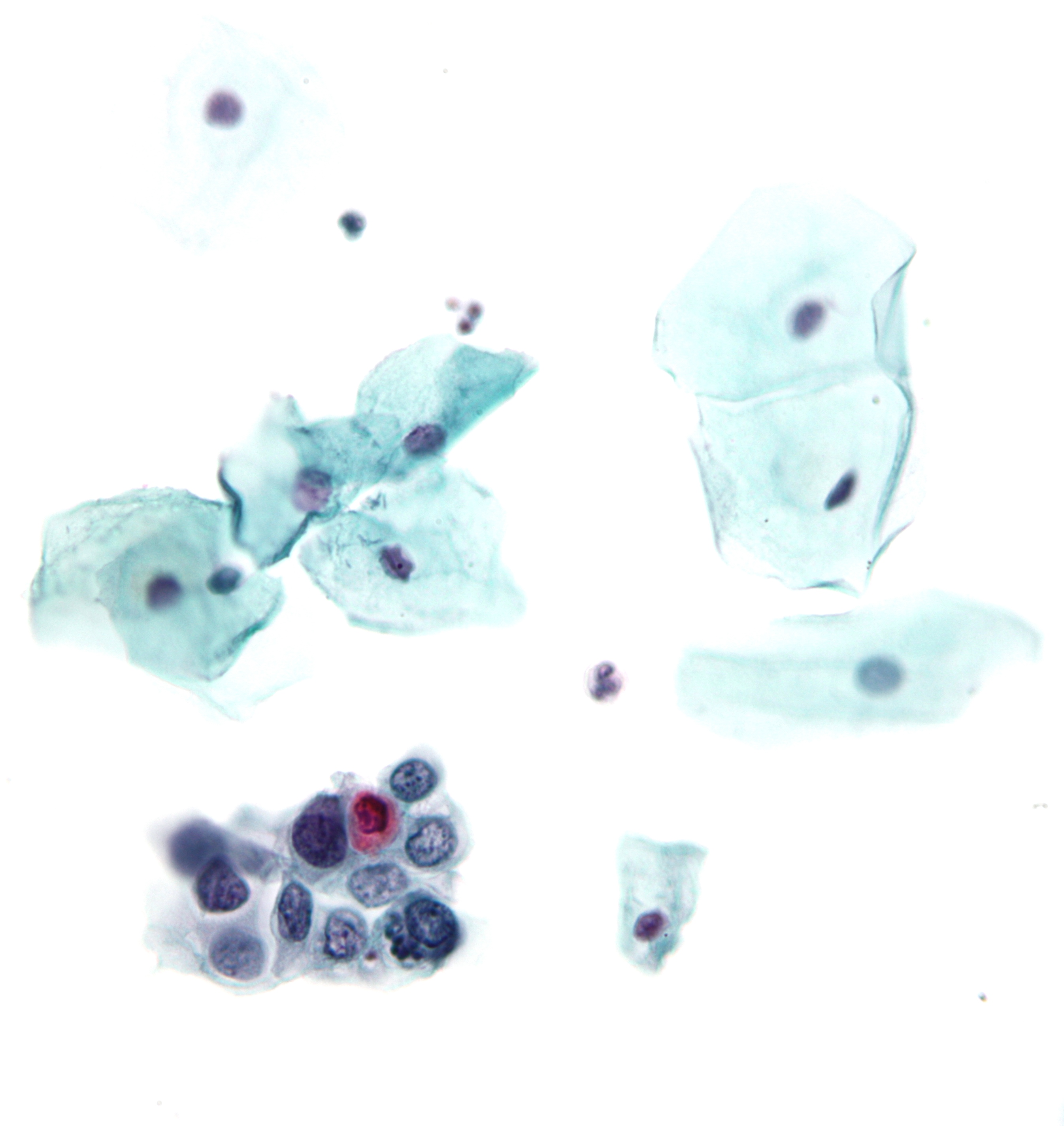 Micrograph showing a high-grade squamous intraepithelial lesion (HSIL). Pap test. Pap stain. Related images LSIL and endocervix. LSIL. Adenocarcinoma.